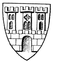 Coat of arms Pomian from the seal of Stefan Michałowski, Janusz Michałowski and Bogusz Pogorzelski, 1276